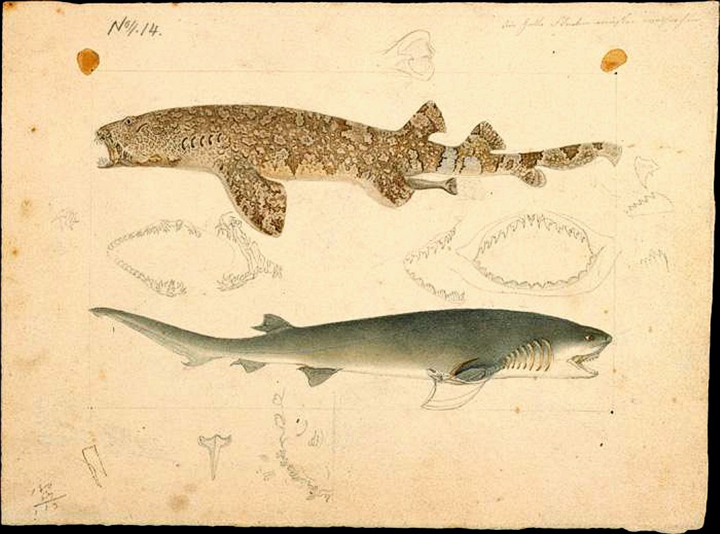 Above:Banded or Ornate Wobbegong (Orectolobus ornatus) Below:Broadnose Sevengill Shark (Notorynchus cepedianus)